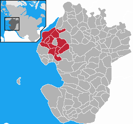 This map shows the area of the Amt Wesselburen in the district Dithmarschen, Schleswig-Holstein, Germany.